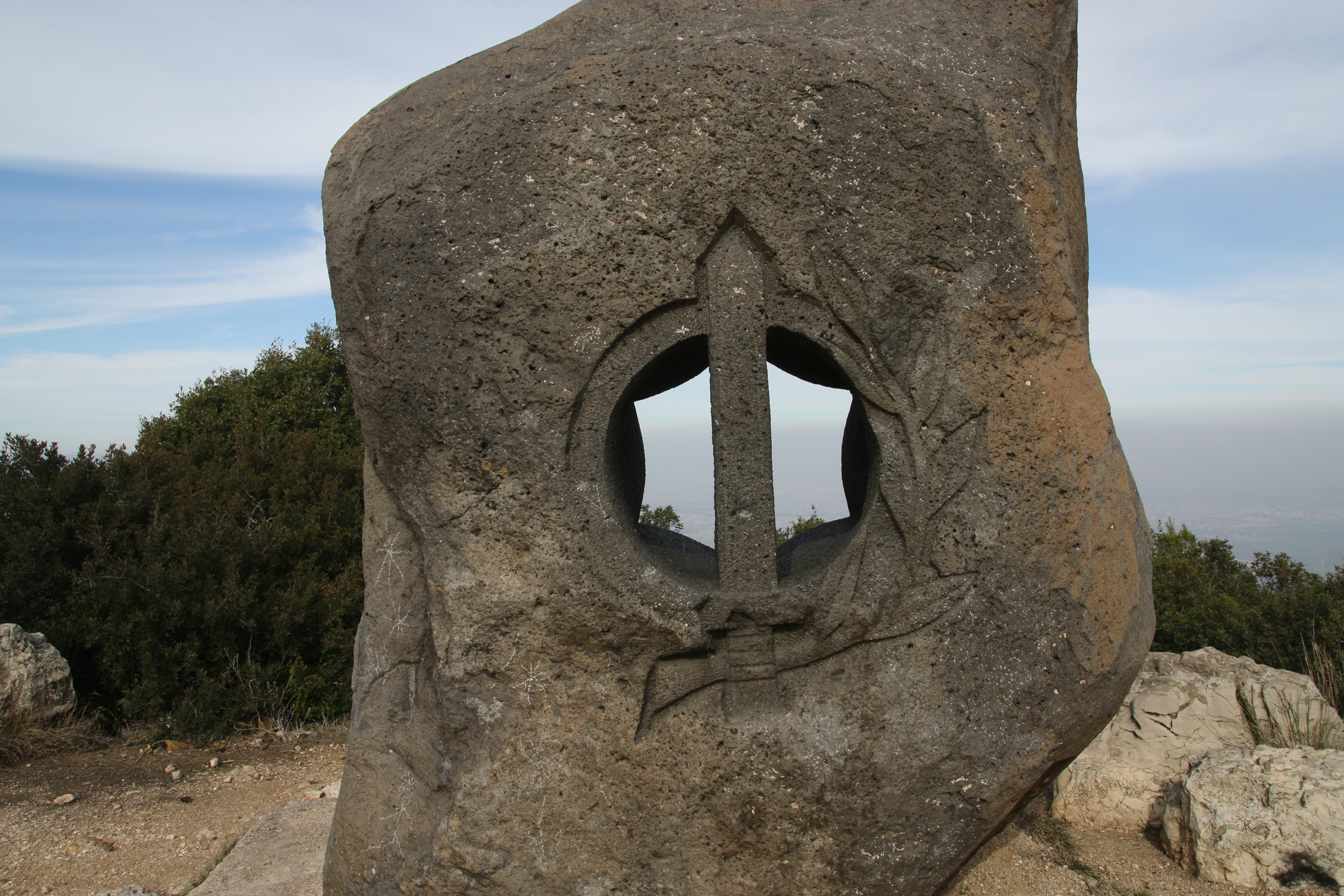 Mount Carmel